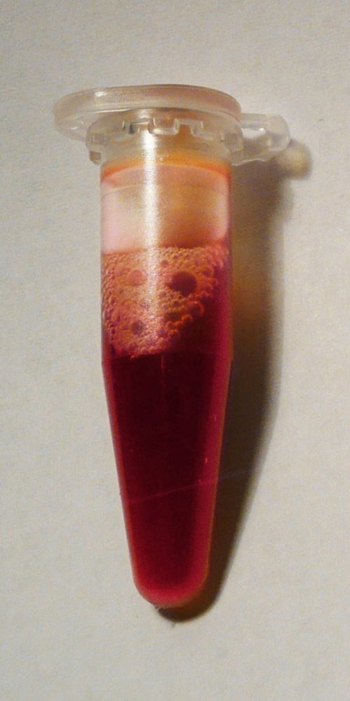 Escherichia coli in the nitrate reductase (nitrate reduction) test, showing a positive result (the microorganism has reduced nitrate to nitrite, which is detected by reagents).